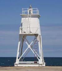 Grand Marais Harbor of Refuge Outer Range Light: Grand Marais MI